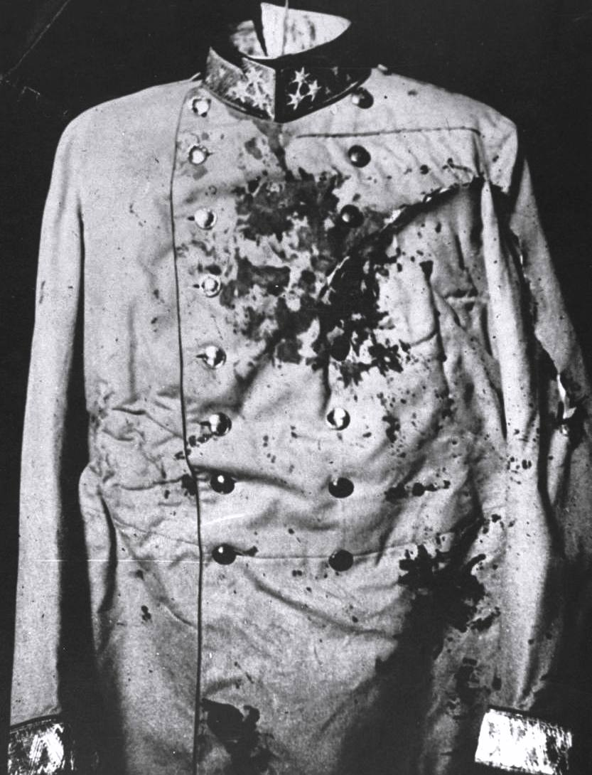 The bloodstained uniform of Archduke Franz Ferdinand of Austria, being displayed sometime after his assassination.